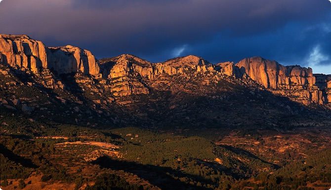 Montsant Natural Park in Priorat Spanish Comarca